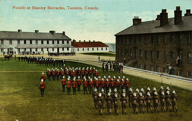 Postcard of Parade at Stanley Barracks, Toronto, Ontario, Canada